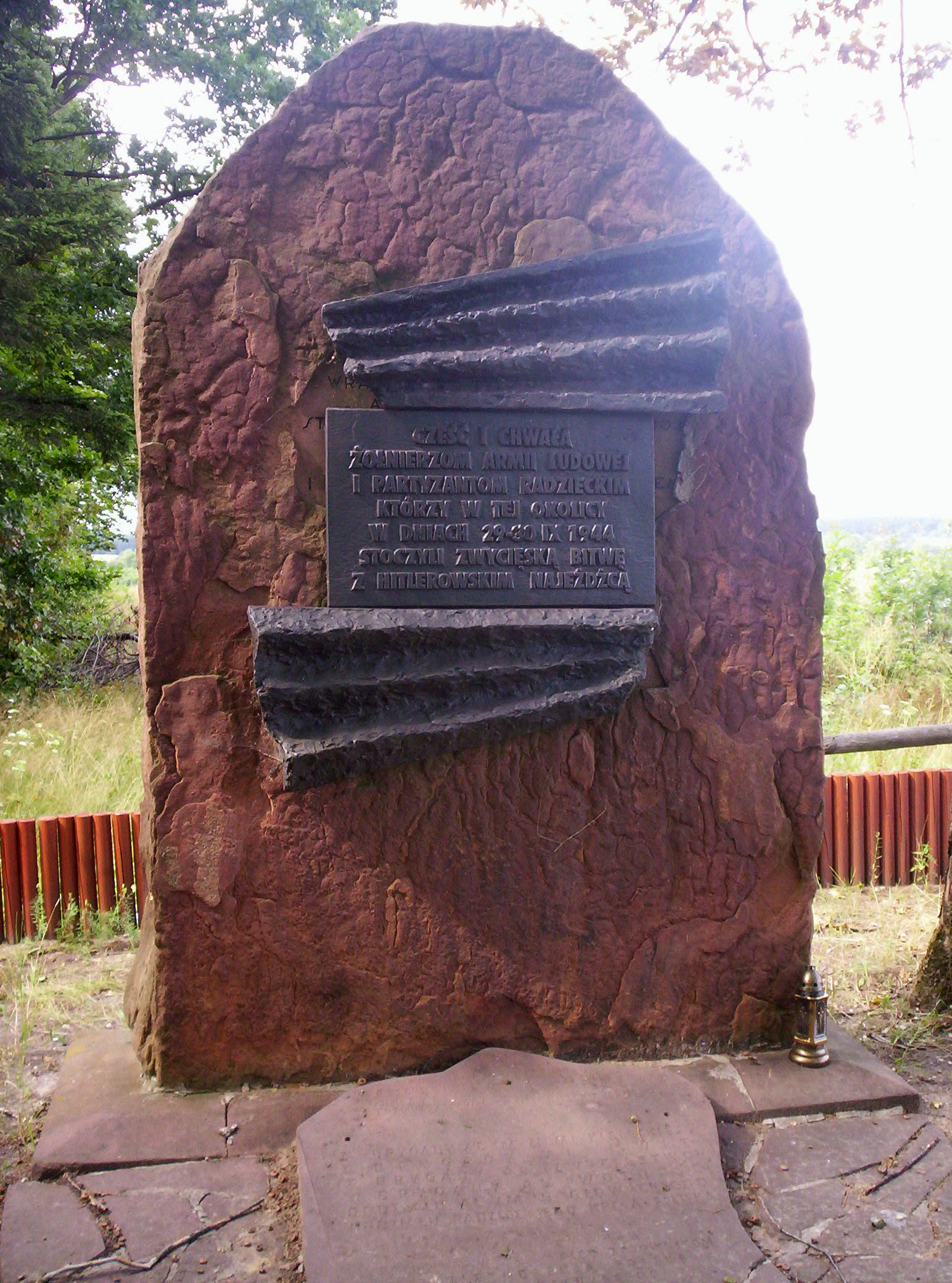 Site of battle during II W.W. near the village of Gruszka